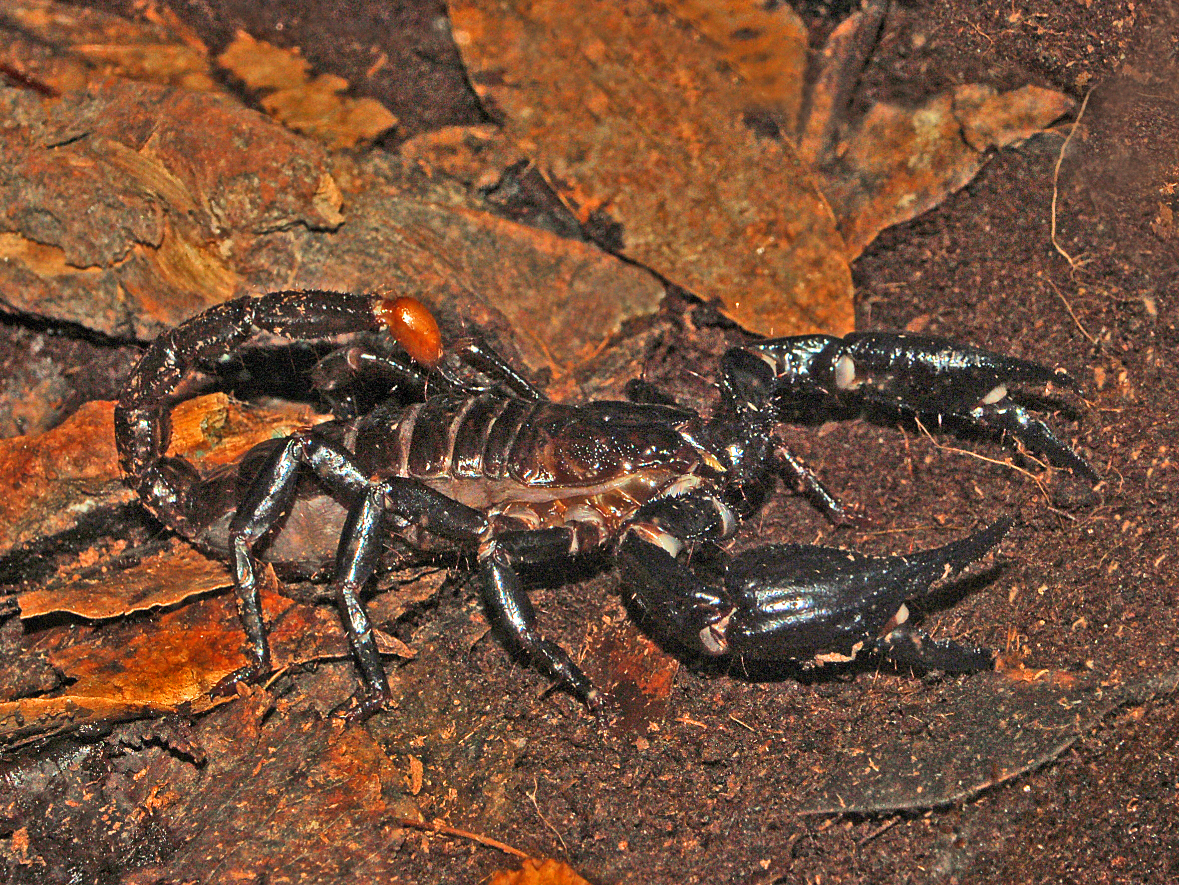 Heterometrus spinifer